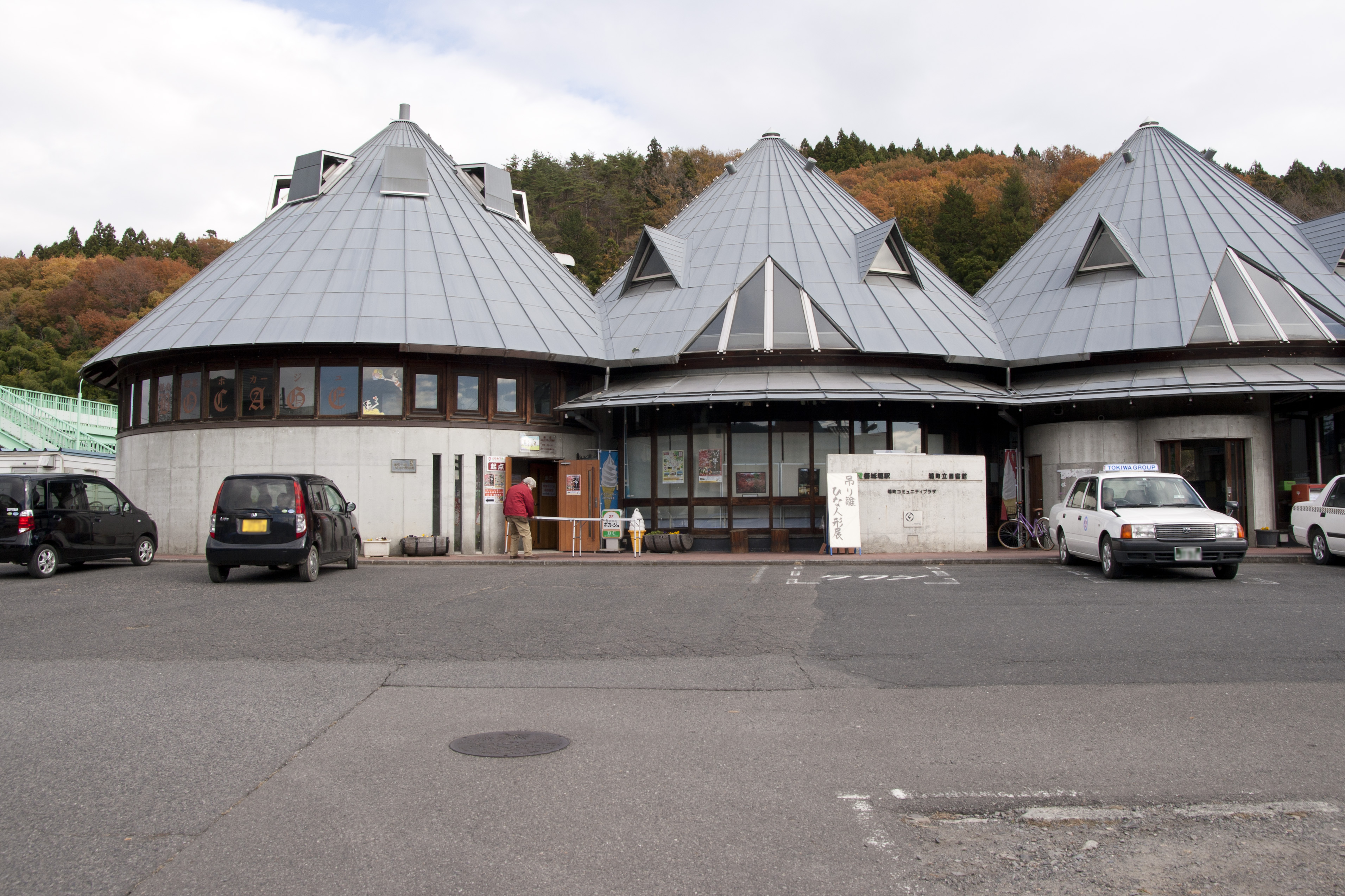 Iwaki-Hanawa Station in Hanawa Town, Fukushima Prefecture, Japan